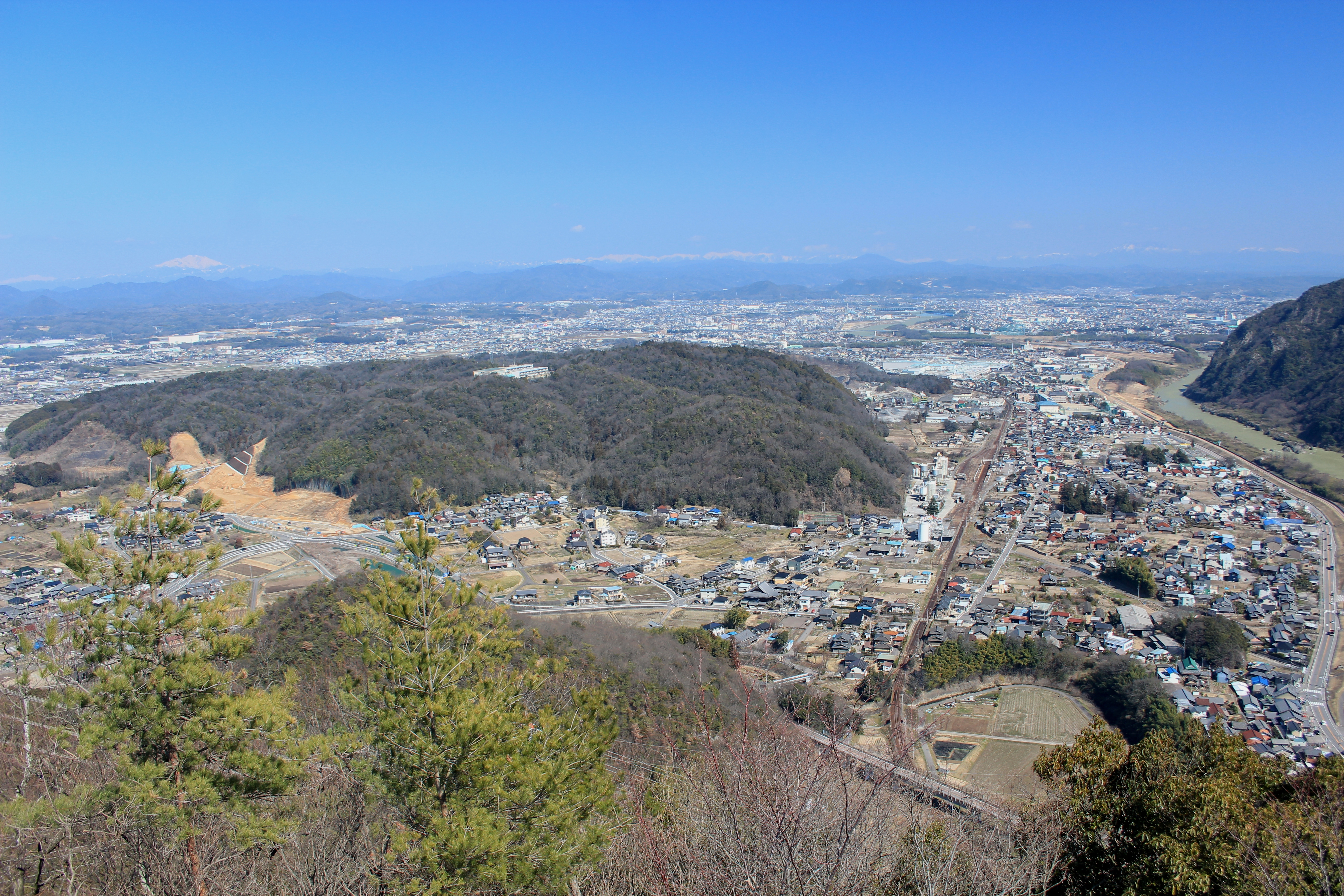 Sakahogi, Gifu prefecture, Japan seen from Sarubami Castle.